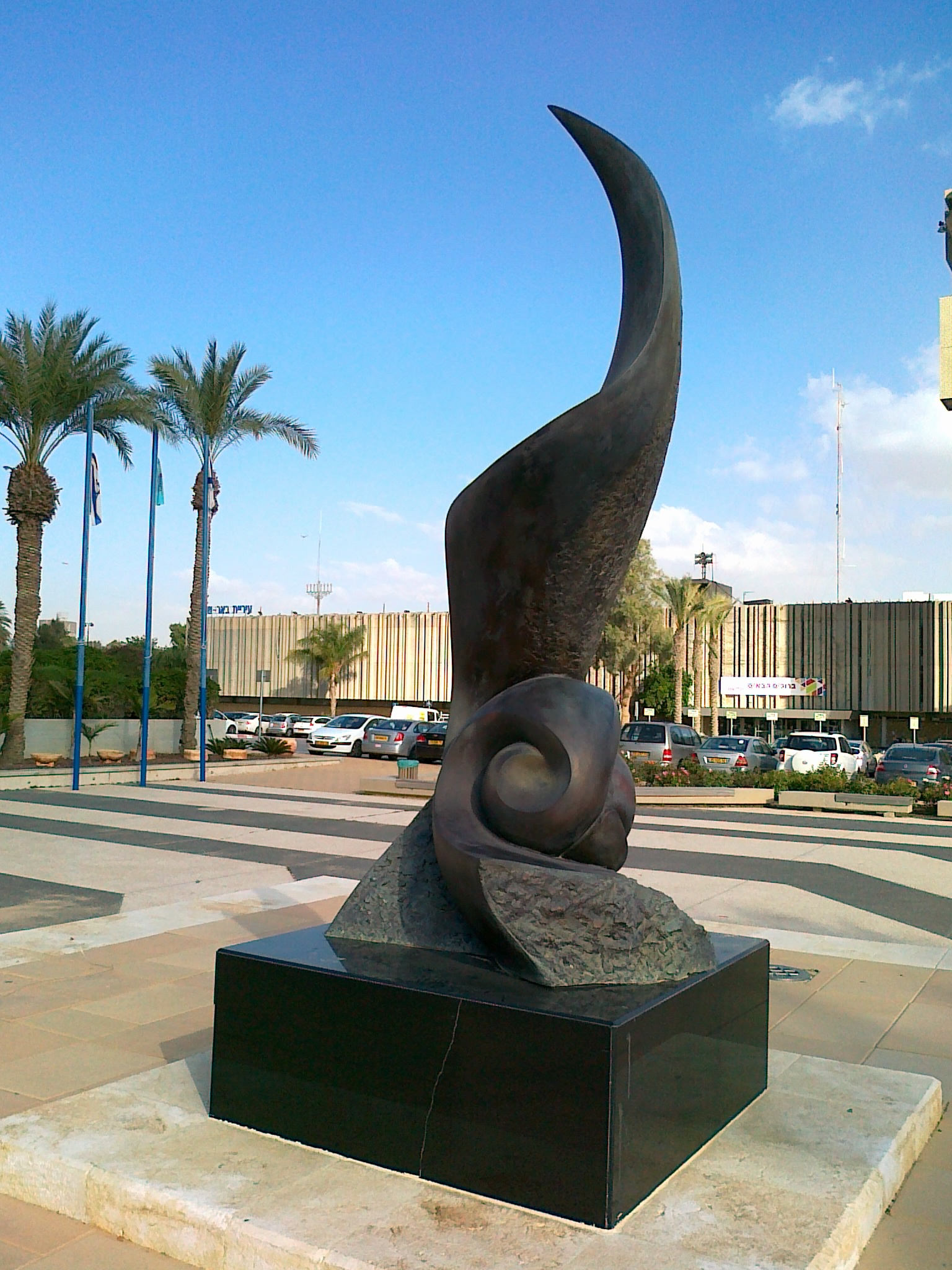 holocaust memorial in beer sheva, Paula Ovadia, 2013